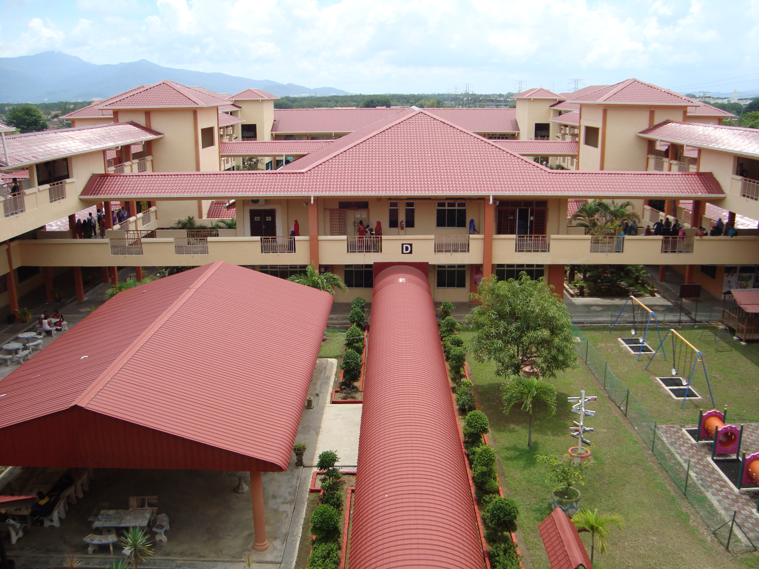 Front View of SMK Bakar Arang Jamuan Raya 2016